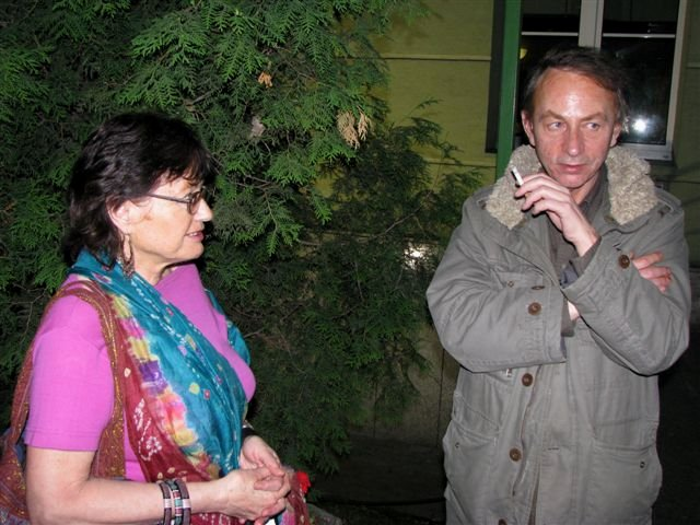 Krystyna Rodowska (b. 1937), Polish poet and translator and Michel Houellebecq (b. 1958), French writer